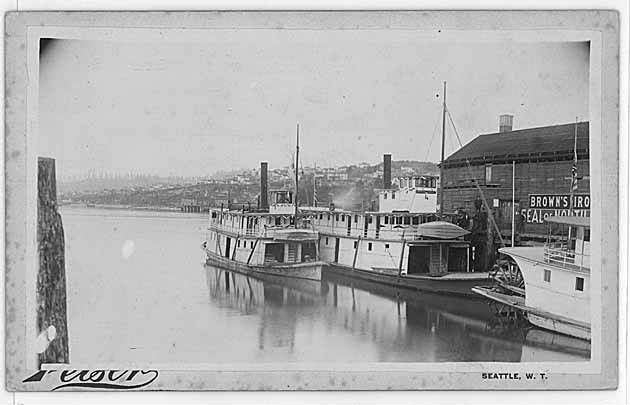 Printed on mount: Peiser, Seattle, W.T . Peiser 10009 Subjects (LCTGM): Waterfronts--Washington (State)--Seattle; Stern wheelers--Washington (State)--Seattle; Piers & wharves--Washington (State)--Seattle The Nellie is presumably the steamer of that name built in Seattle in 1876 and which for many years made the mail run to Snohomish. The W.F. Munroe was named after the man who had been captain of the Chehalis when it wrecked in a storm on the Seattle-Snohomish run in 1882.